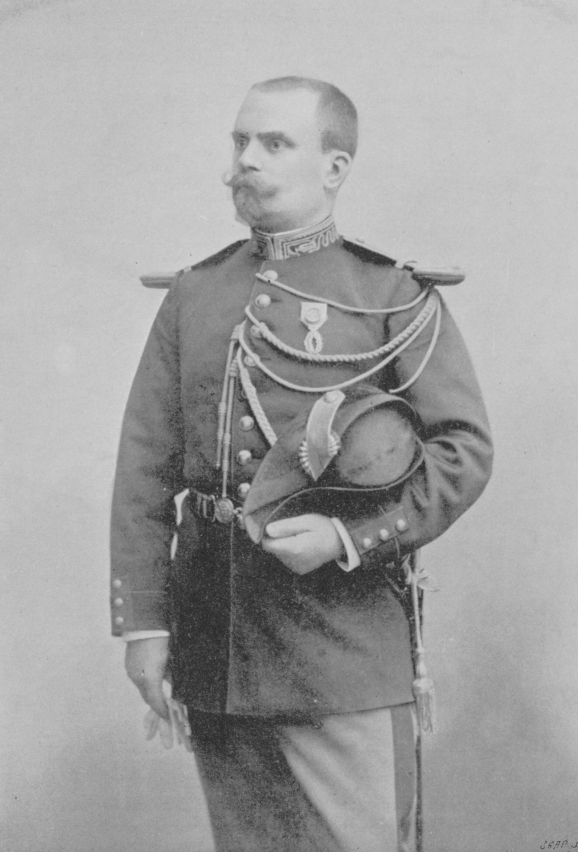 French composer and bandmaster Gabriel Parès (1862-1934)